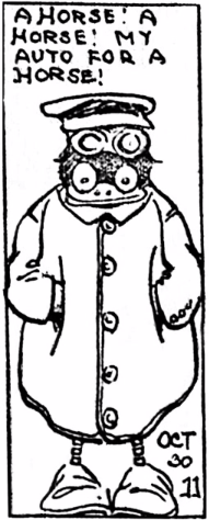 1911 monochrome cartoon of the St. Louis Post-Dispatch Weatherbird mascot